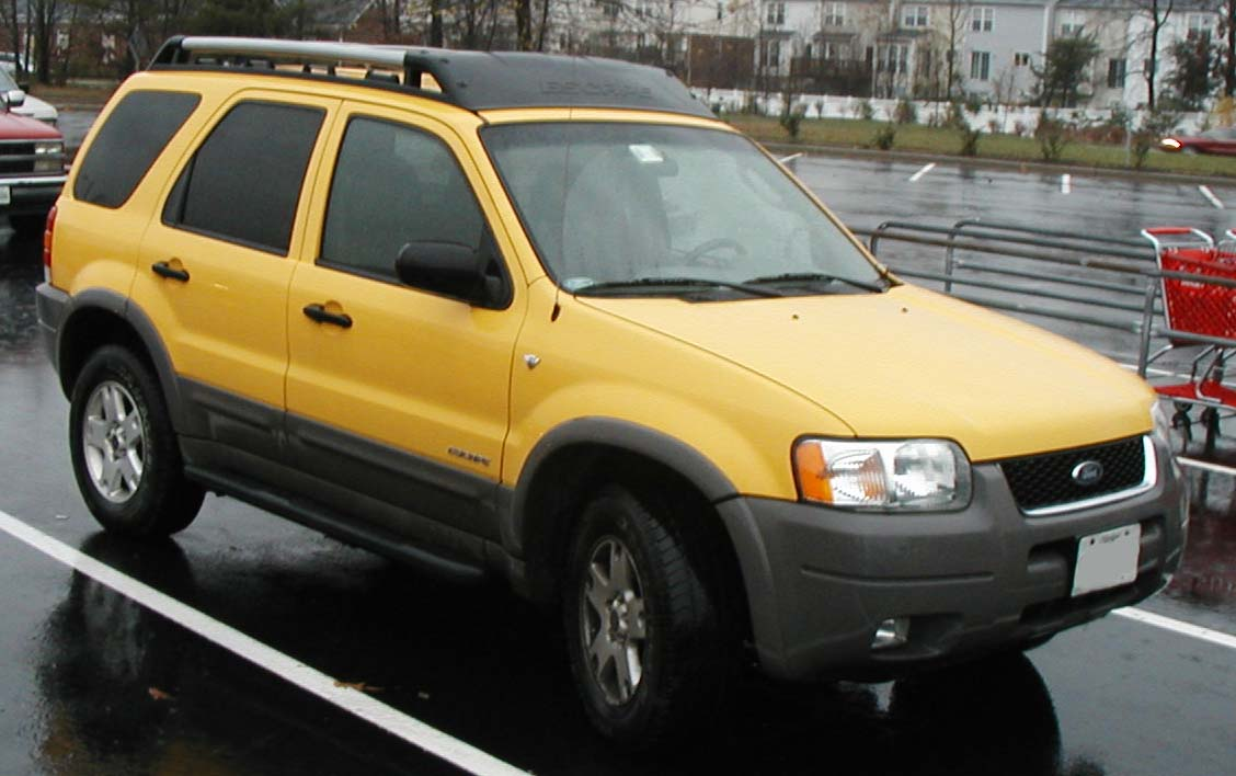 2001-2004 Ford Escape photographed in USA.